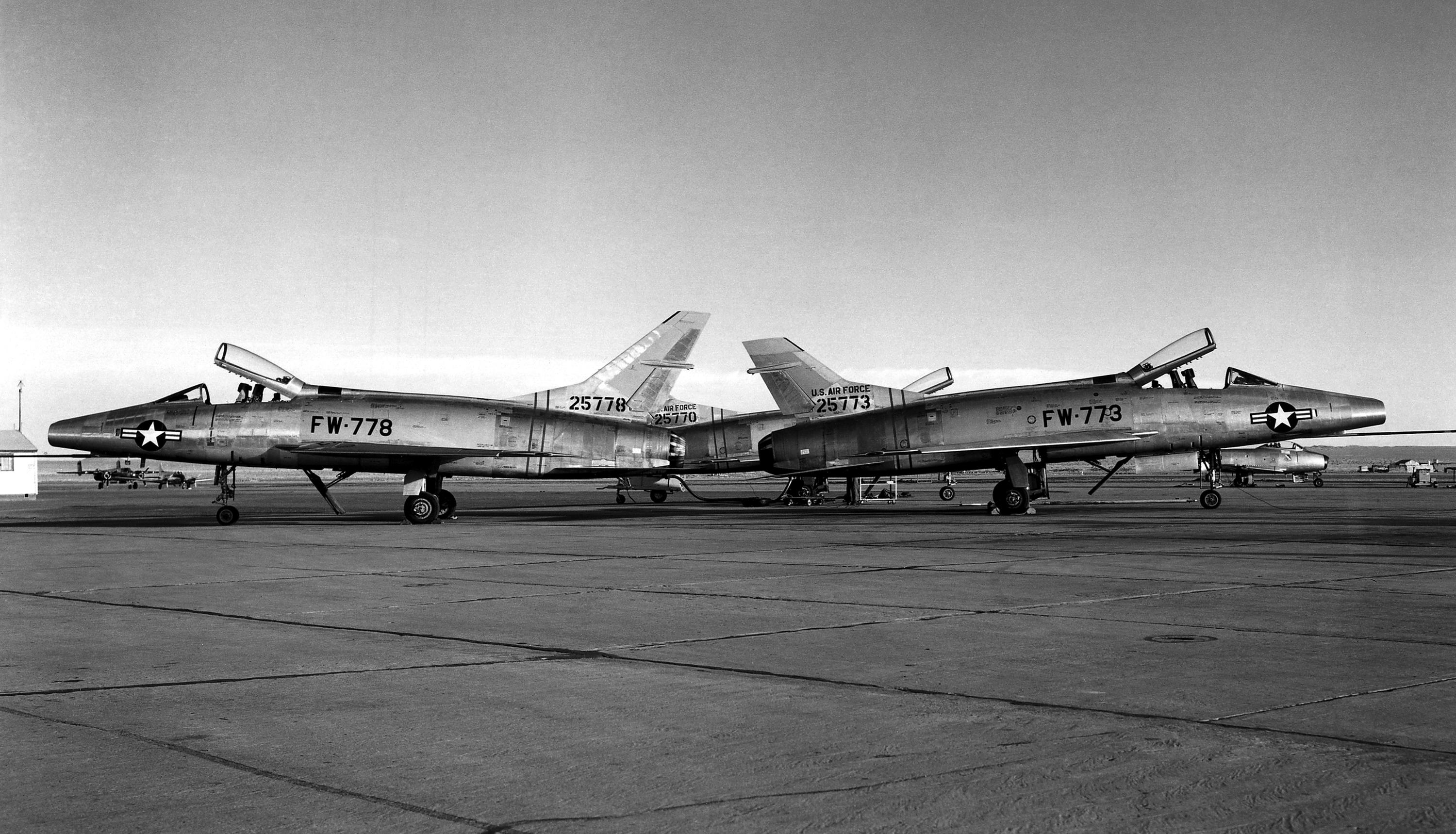 Three North American F-100A-5-NA Super Sabre fighters (s/n 52-5770, 52-5773, 52-5778) at the National Advisory Committee for Aeronautics in 1955. On the left is NACA High-Speed Flight Station’s F-100A (52-5778) with a modified vertical fin. On the right is the USAF F-100A (52-5773) with the original vertical fin configuration. NACA added a larger vertical fin to the airplane in December 1954, adding 10 percent more surface area. Later North American installed an even larger fin, having 27 percent greater area, as well as wingtip extensions. These modifications solved the dangerous directional stability and roll coupling problems that the F-100 was experiencing. (text: NASA)